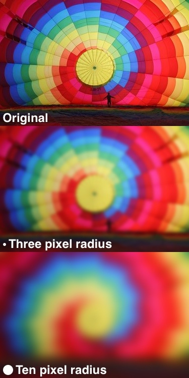 Demonstrates gaussian blur with circles showing radius